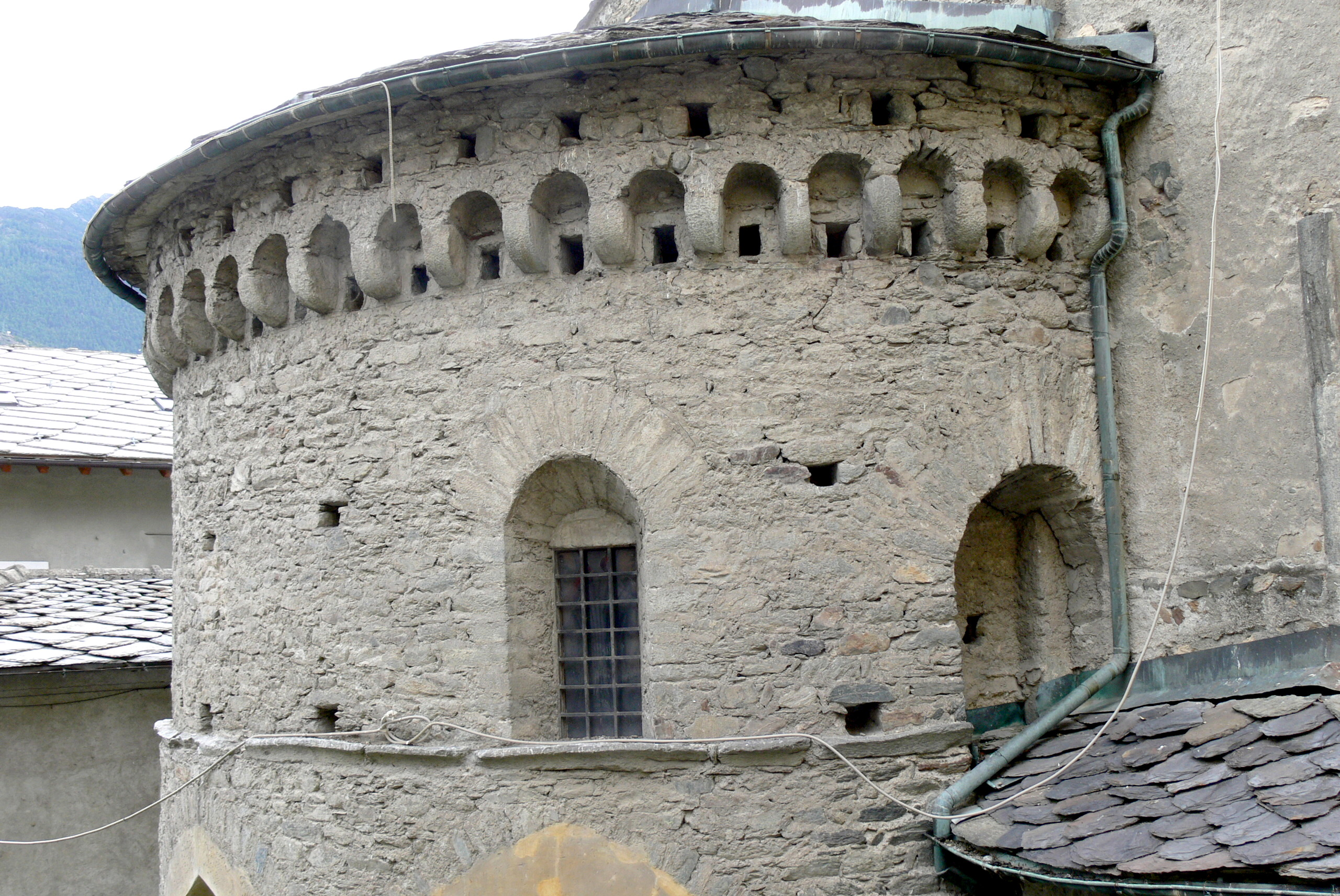 Saint-Vincent ( Aosta Valley ). Saint Vincent parish church - Romanesque apse ( 12th century ).